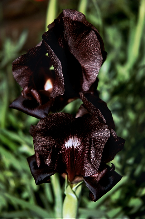 The flower of the Black Iris or Iris atropurpurea